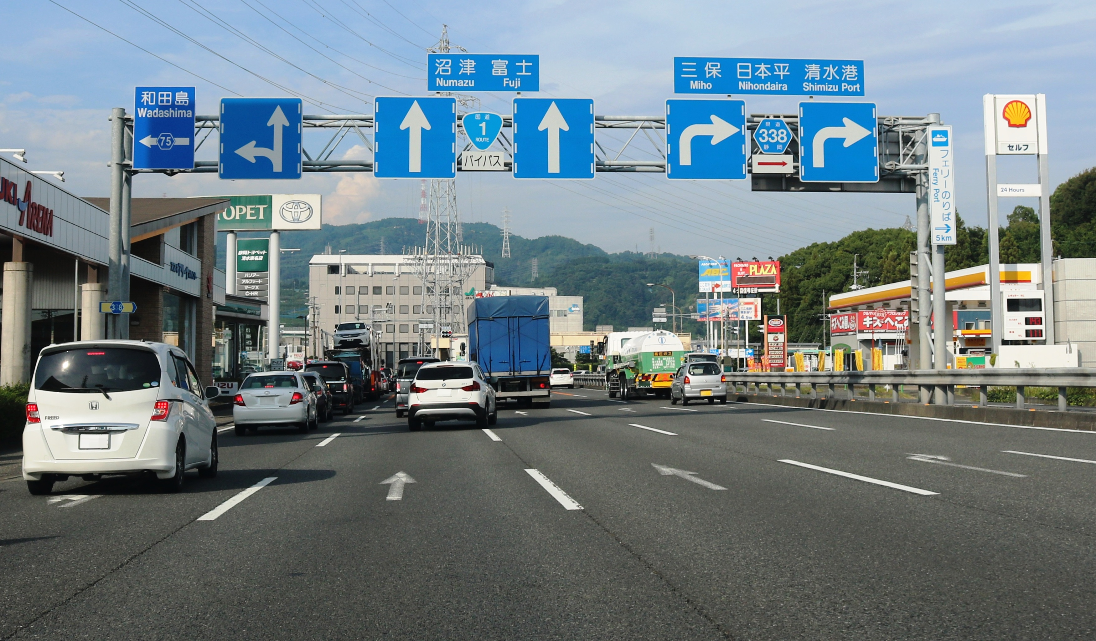 Seishin Bypass of Route 1 in Iharacho, Shimizu-ku, Shizuoka City, Shizuoka Prefecture, Japan.